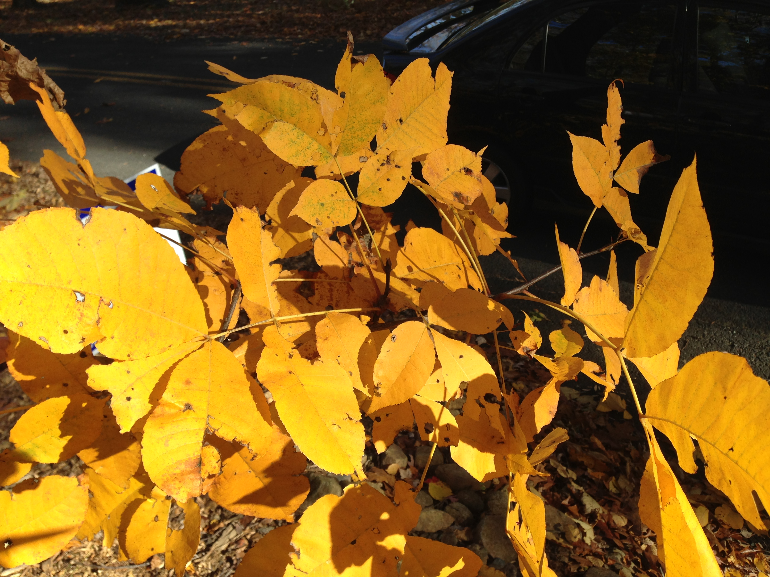 Hickory foliage during autumn along Woosamonsa Road in Hopewell Township, New Jersey